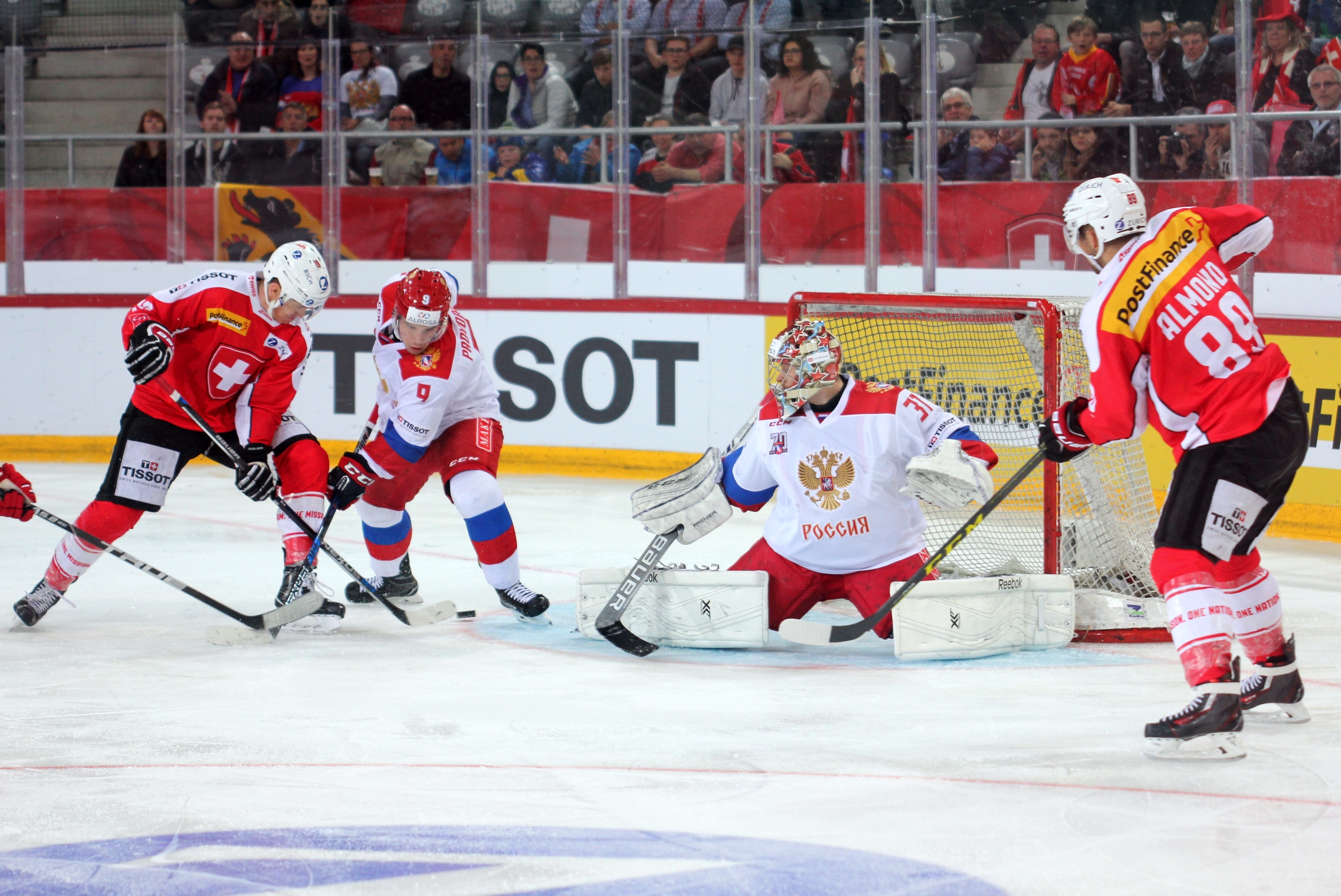 Reto Schäppi (S 19), Ivan Provorov (R 9), Ilya Sorokin (R 31), Cody Almond (S 89).